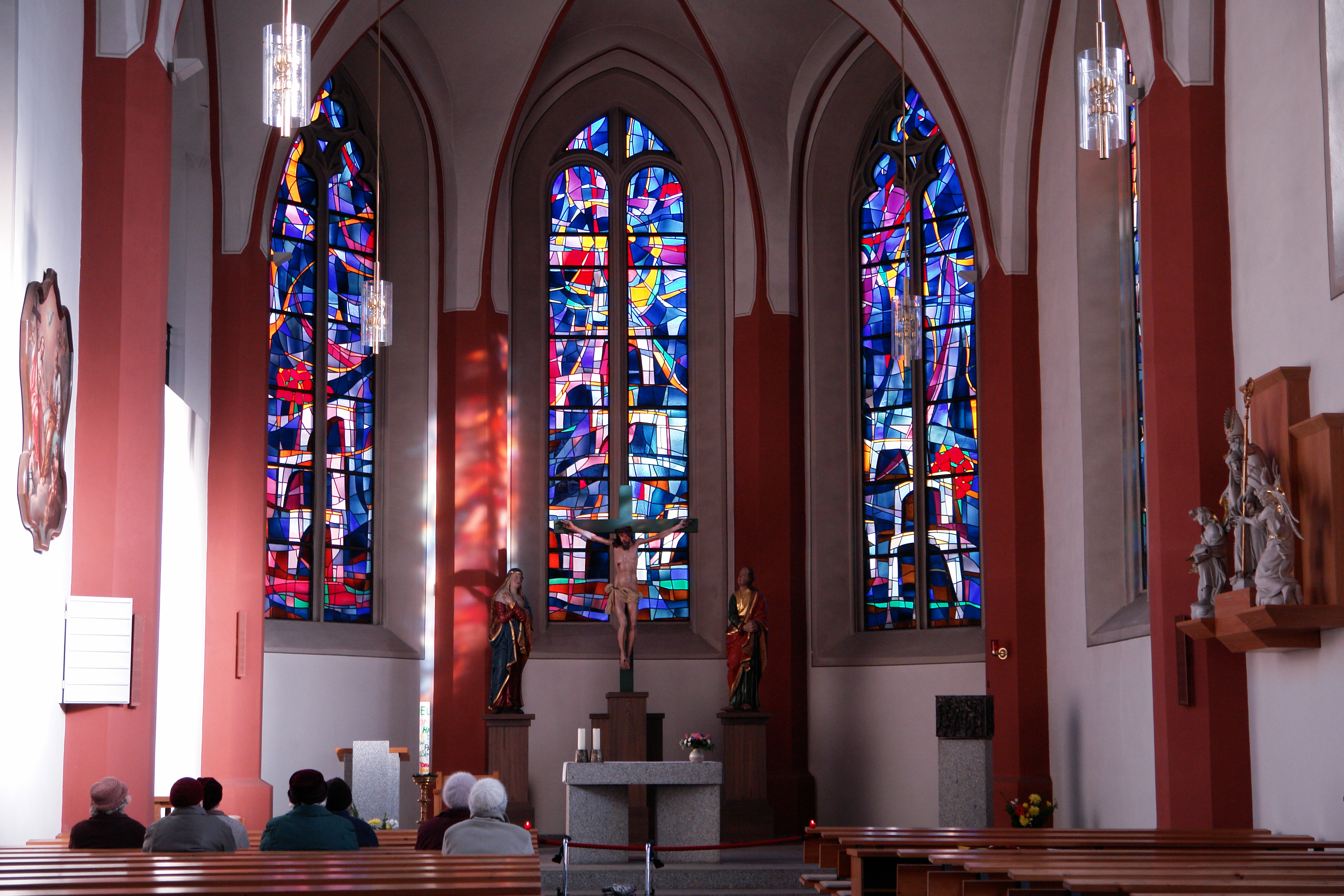 Church Liebfrauenkirche in Bautzen in Saxony, Germany.